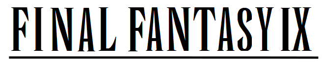 Final Fantasy wordmark created using Runic MT Condensed font. Trademarked by Square Enix.